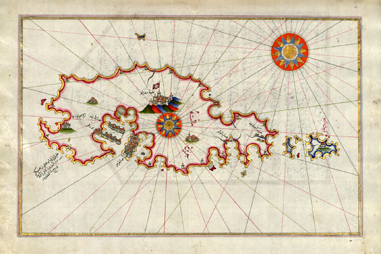 Piri Reis (Turkish, 1465-1555). 'Leaf from Book on Navigation,' 17th-18th century. ink, paint, and gold on paper. Walters Art Museum (W.658.222B): Acquired by Henry Walters.